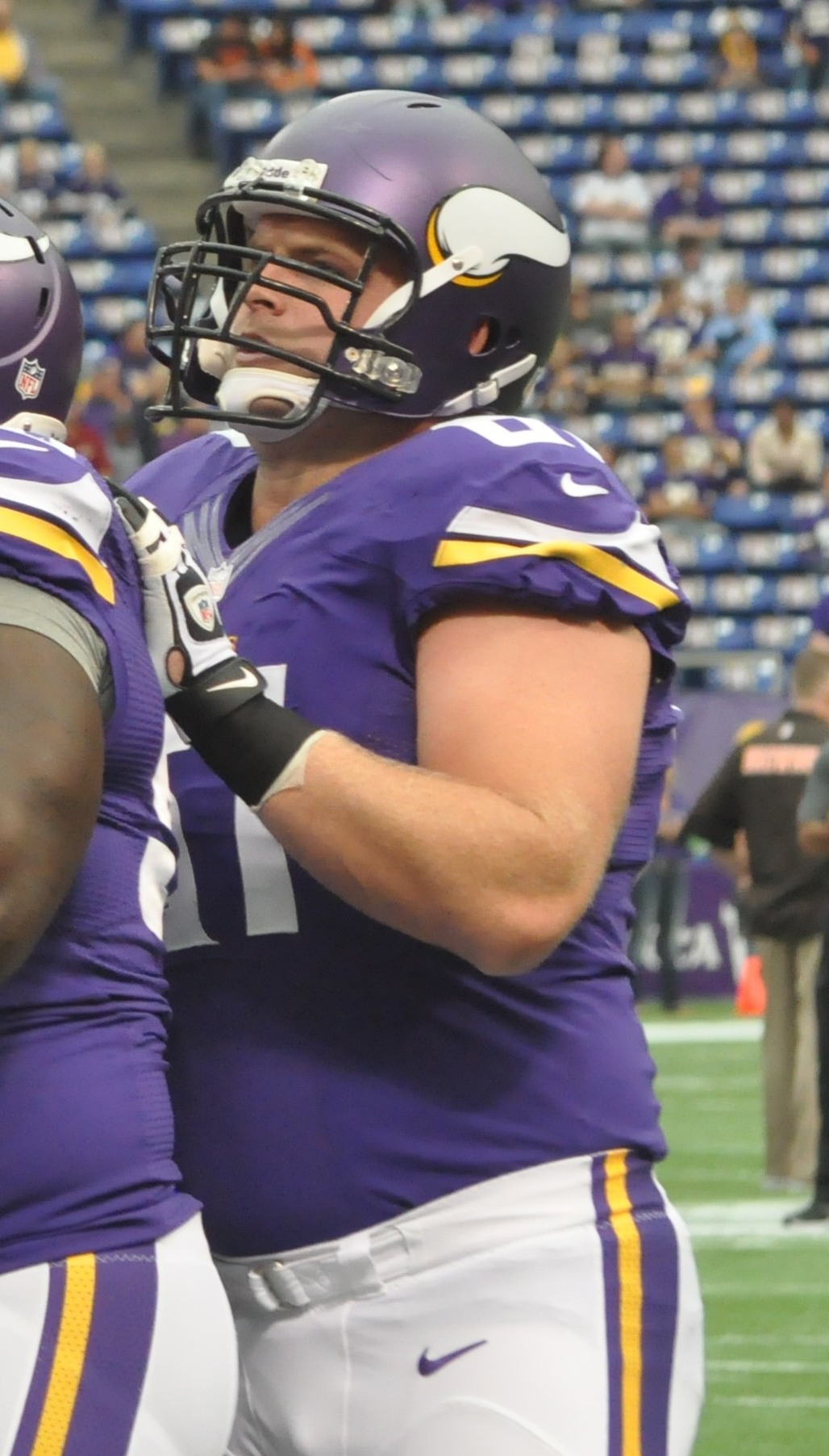 Minnesota Vikings guard, Joe Berger, in 2013.